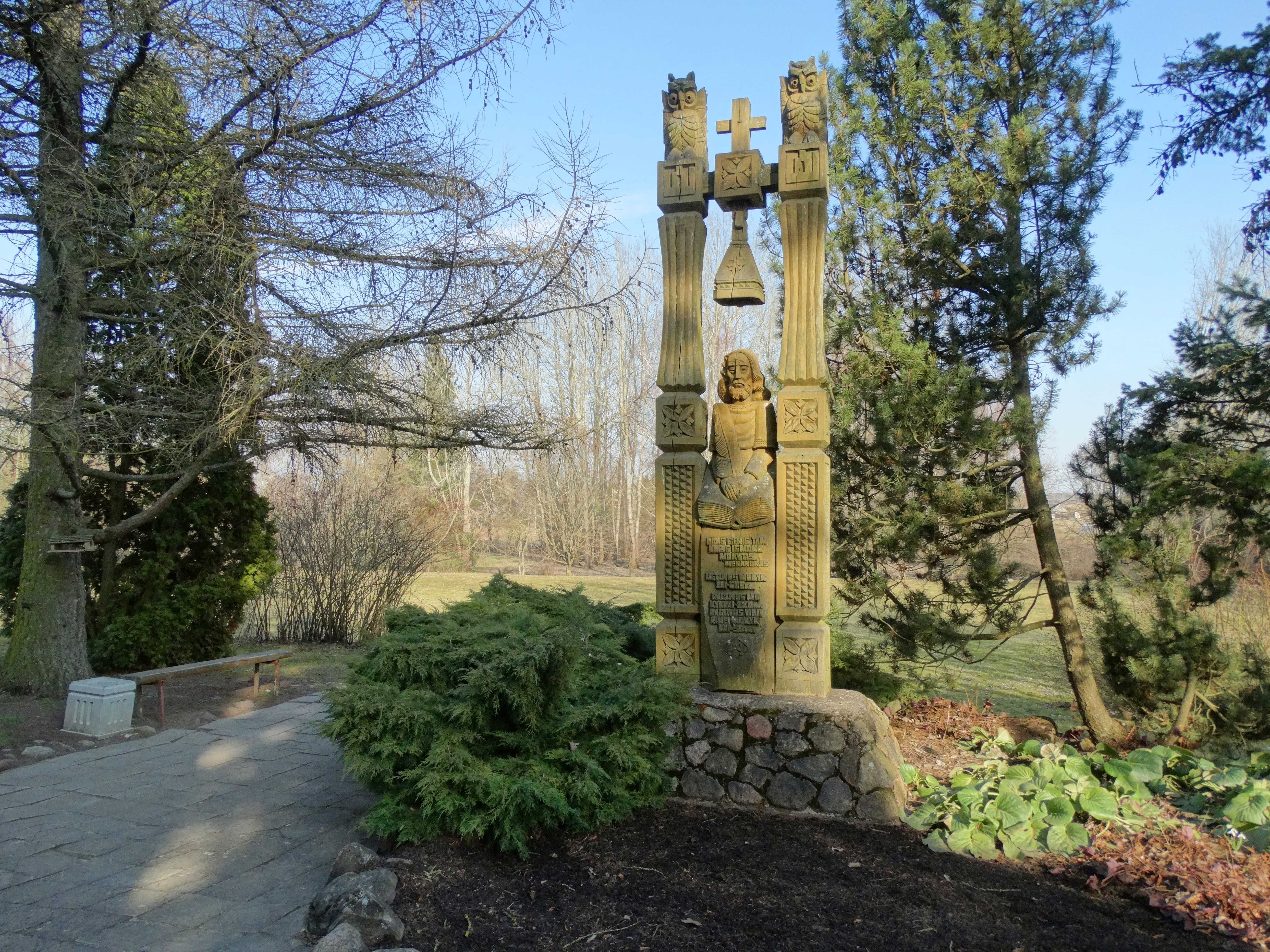 Gymnasium, Raguva, Panevėžys district, Lithuania